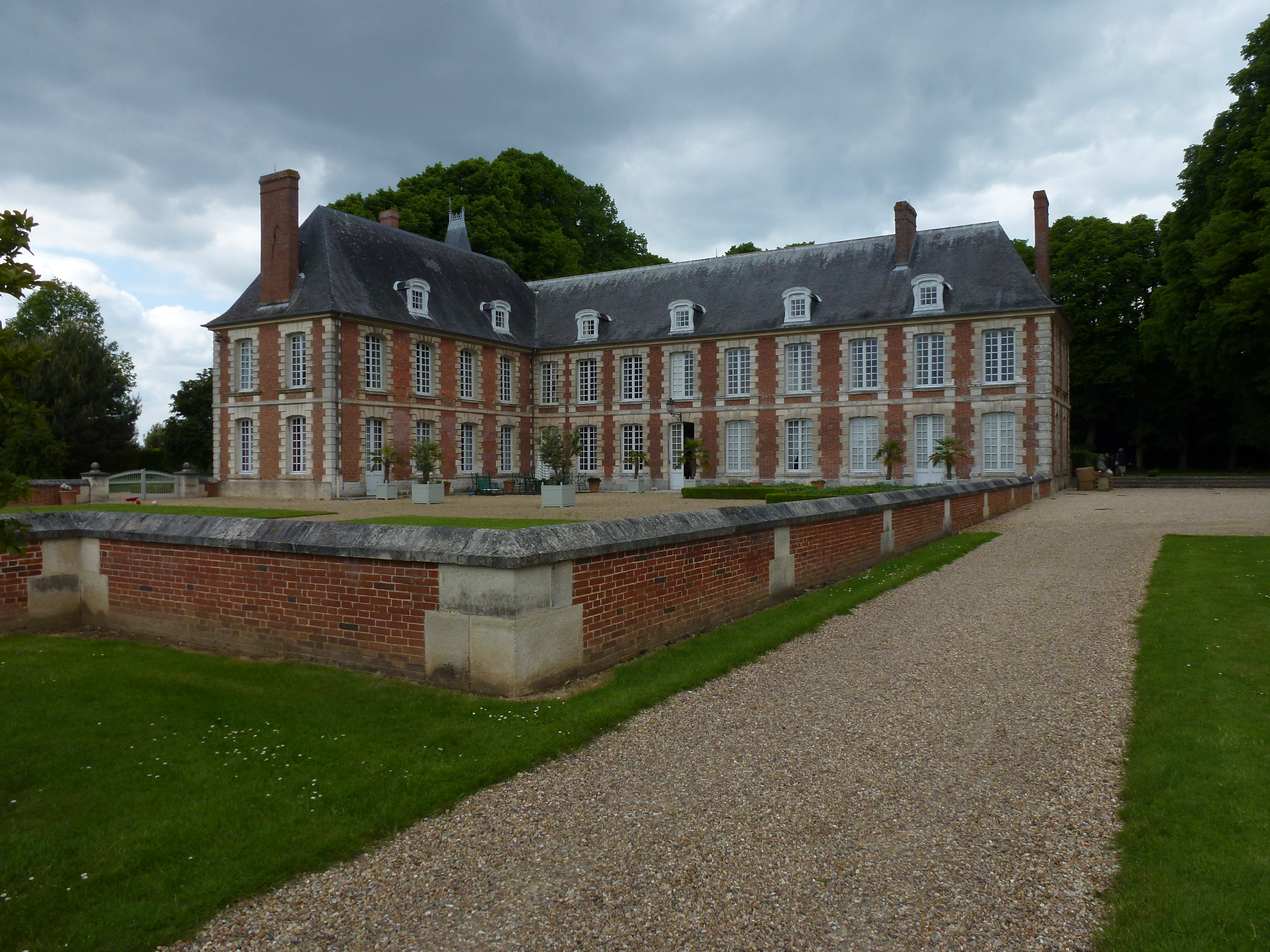 Château du Troncq et cour d'honneur This building is en partie classé, en partie inscrit au titre des Monuments Historiques. .